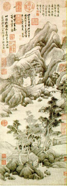 Landscape paintings by Tung Chichang (1555-1636). (Google translator).